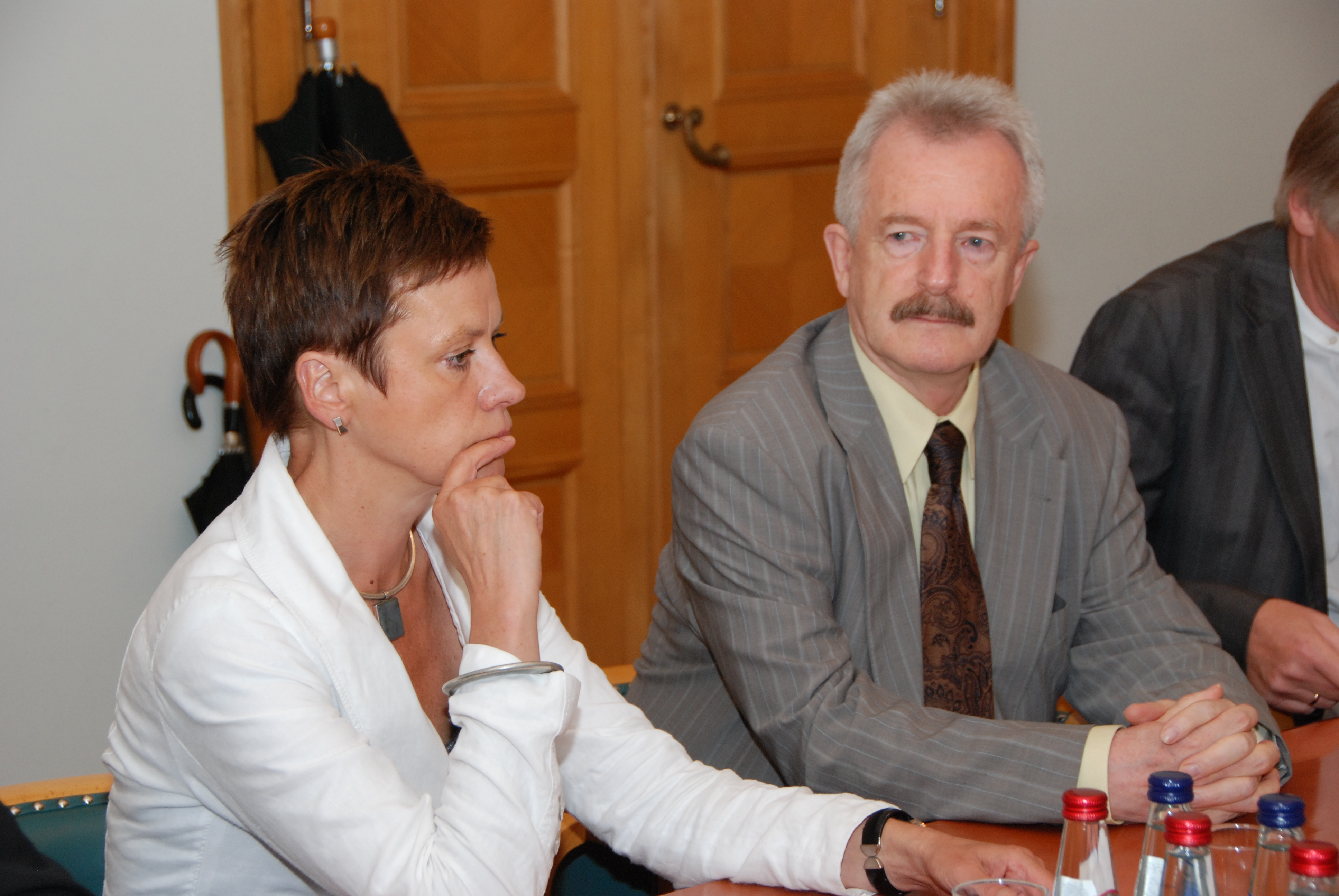 Politican Sarmīte Ēlerte and the Director of Rundāle pils museum Imants Lancmanis during a meeting with the Latvian Prime Minister.